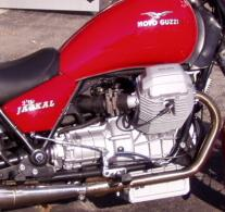 Cropped from Image:2000JackalV11.jpg 2000 Moto Guzzi Jackal Credit: Juda Engelmayer My First Guzzi Juda S. Engelmayer 06:26, 28 January 2007 (UTC) And licensed as This work has been released into the public domain by its author, Judae1 at the English Wikipedia project. This applies worldwide. In case this is not legally possible: Judae1 grants anyone the right to use this work for any purpose, without any conditions, unless such conditions are required by law.